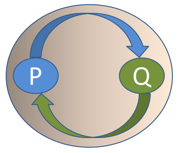 Depiction of simple feedback, defined as two systems that influence each other, and their dynamics are strongly coupled. Based on a definition by K.Johan Astrom and Richard Murray ("Feedback Systems", 2008)